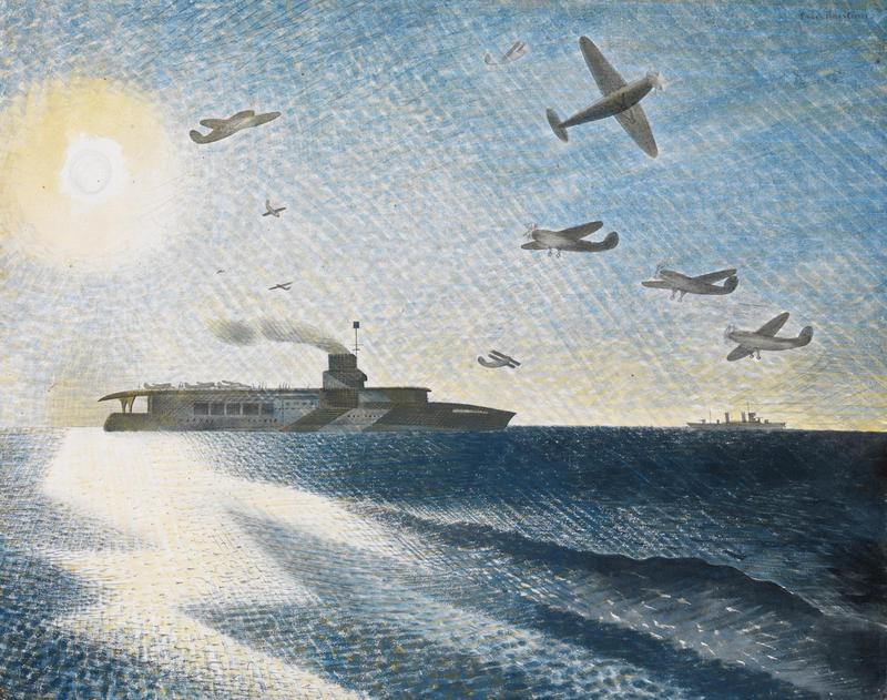 A large ship, the aircraft carrier HMS Glorious, is seen steaming on a calm sea with small airplanes flying above. A second ship is sailing on the horizon.